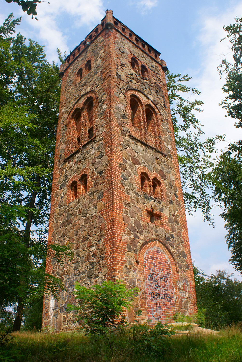 Promnitz Tower in Zary (Poland), built in 1864 on the efforts of the Sohrau Society for Municipal Amenties.